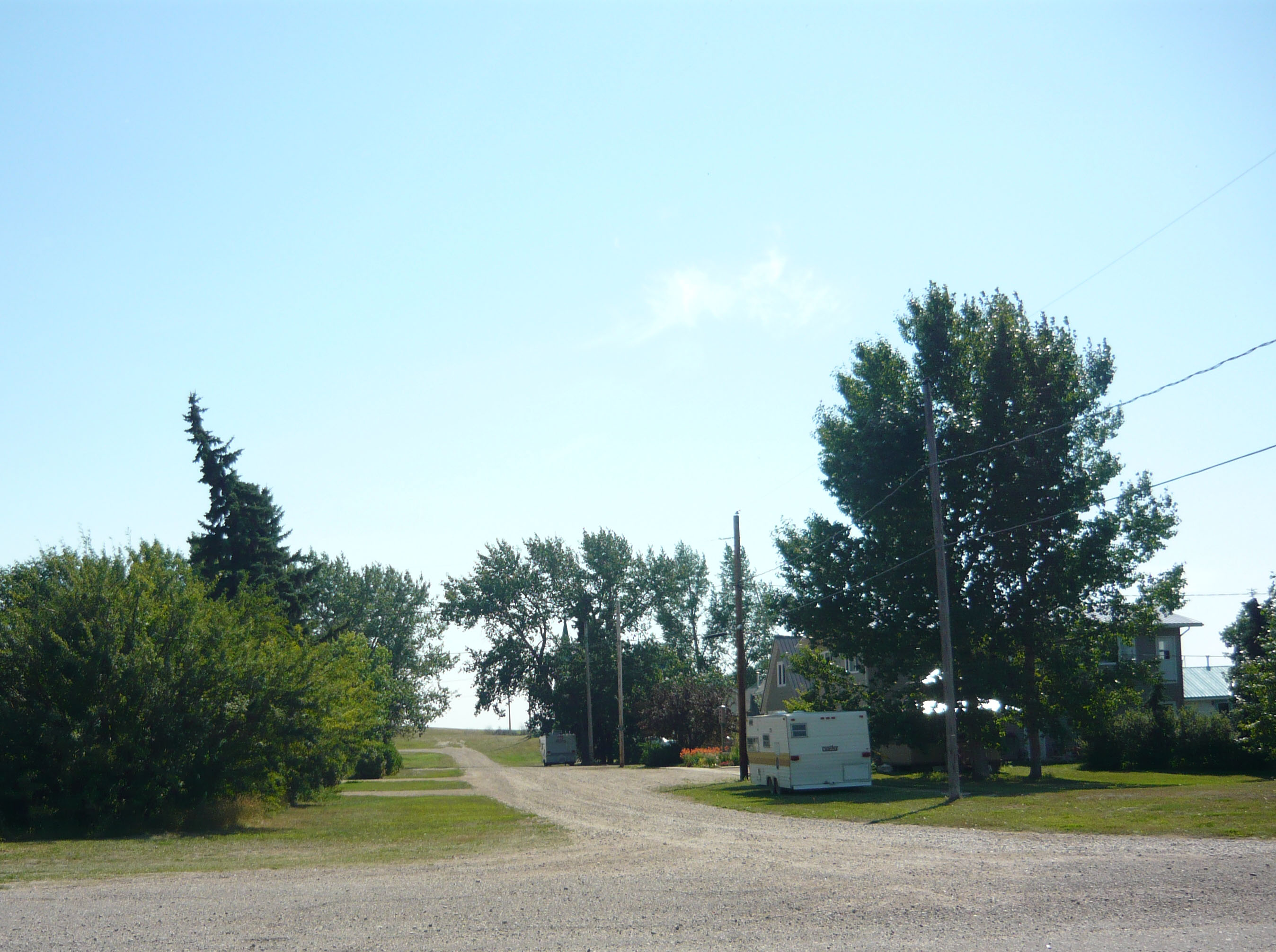 Saskatchewan Avenue (at intersection of Third Street), Penzance, Saskatchewan, Canada.